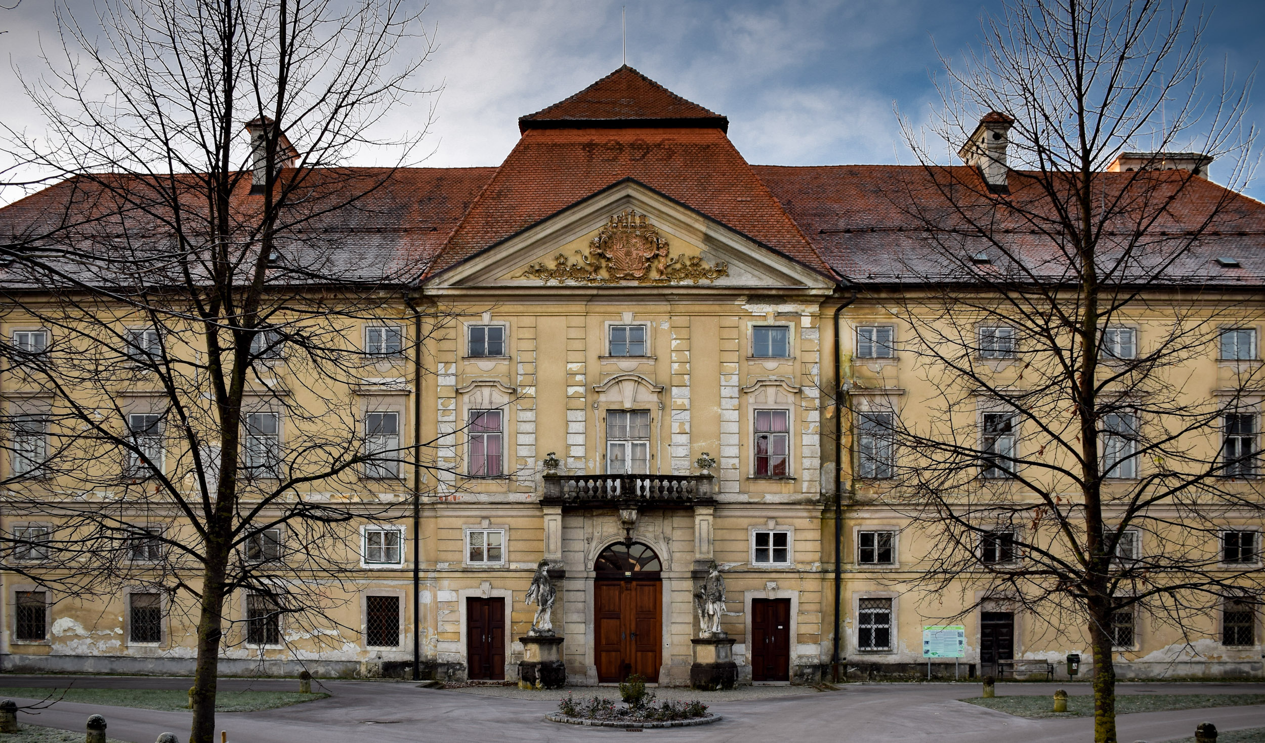 Dvorec_Novo_Celje This media shows a cultural heritage object of Slovenia with the EŠD number: 491